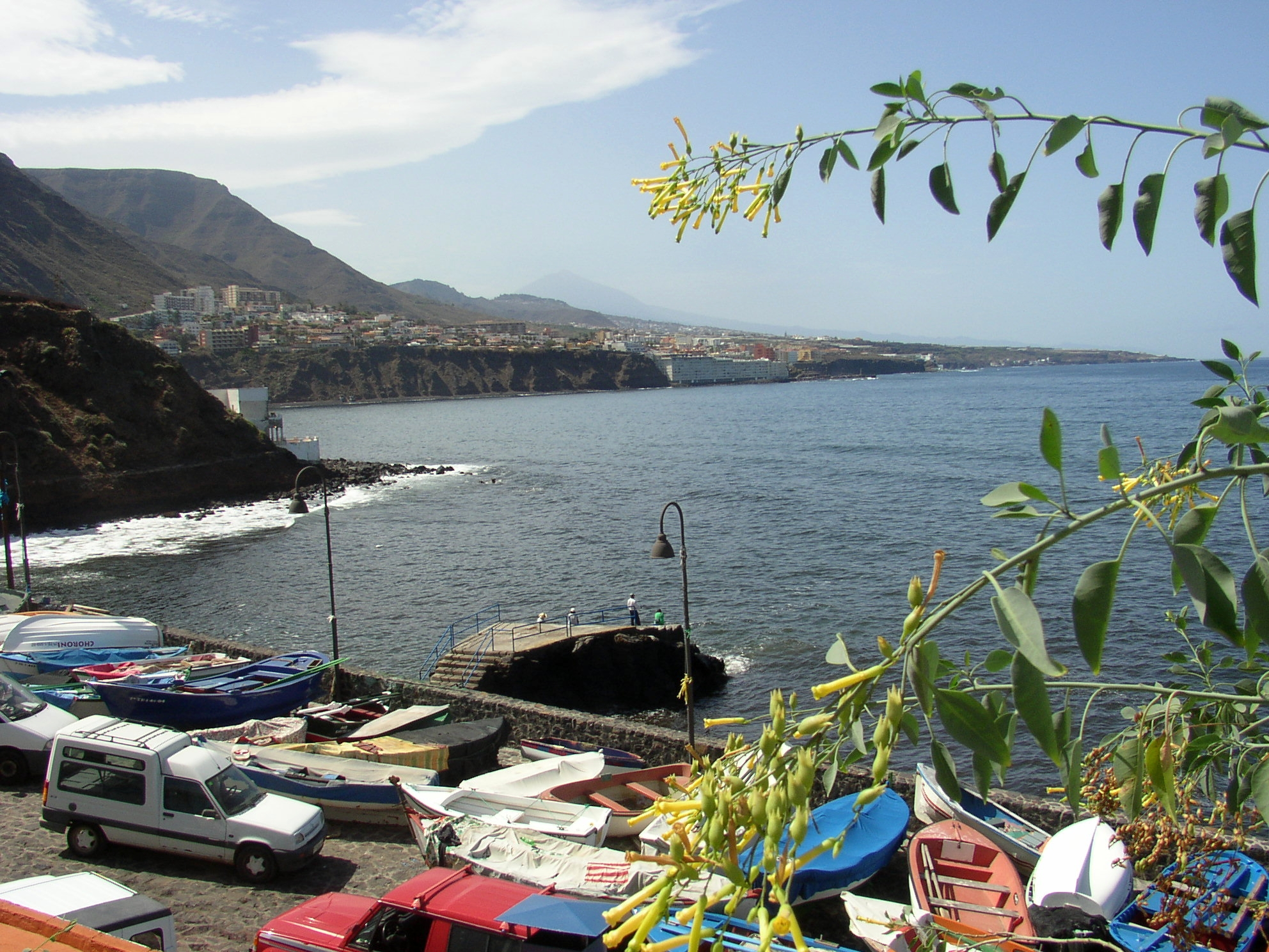 Bajamar, seen from Punta del Hidalgo